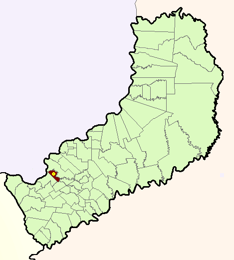 Map showing municipio of Loreto in Misiones Province, Argentina. Yellow point marks Loreto town.